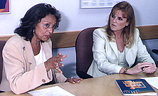 Dr Vivian Pinn (left) and Sarah Ferguson, Duchess of York at the National Institutes of Health (NIH) Clinical Center, Bethesda MD, U.S.A.